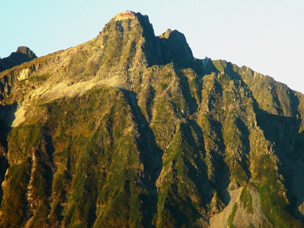 Kitahotaka huts on Mount Kita-Hotaka seen from Mount Nishi, in Hida Mounatins, Japan.